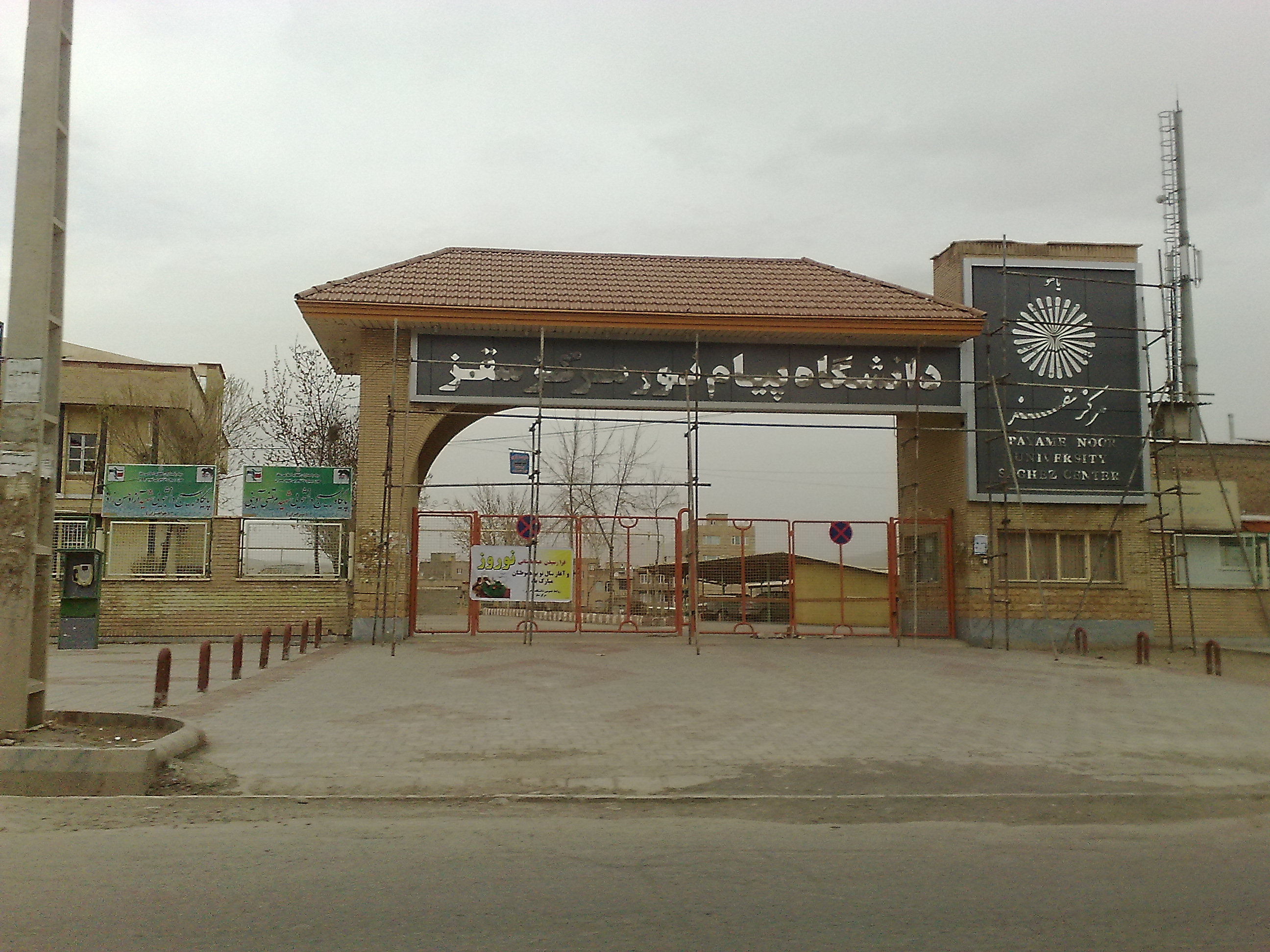 Payam-e Nour university of saqqez- Iran